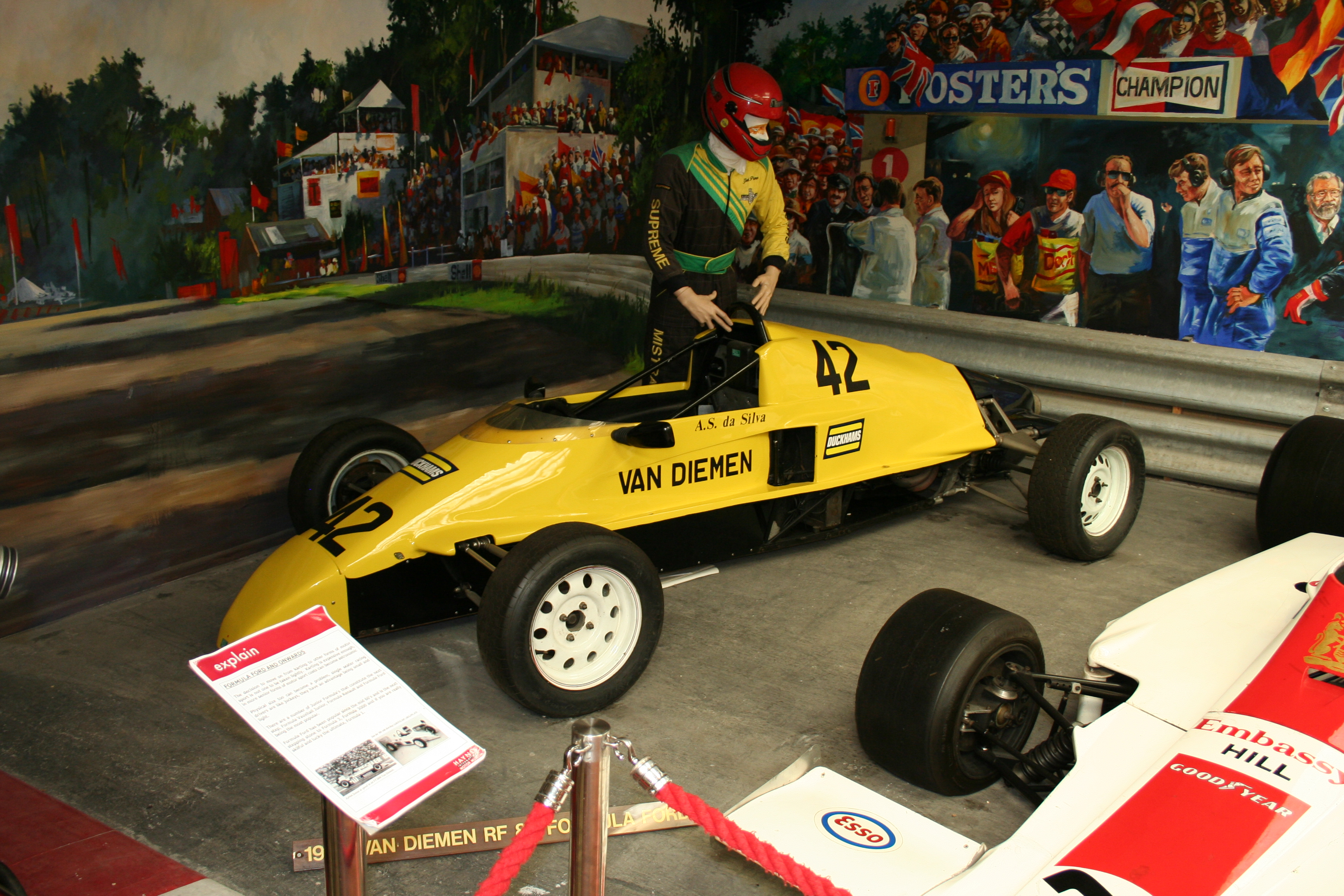 1984 Van Diemen RF84. In reality, Ayrton Senna did not drove a Van Diemen RF84 as this scene in the museum, but rather a Van Diemen RF81